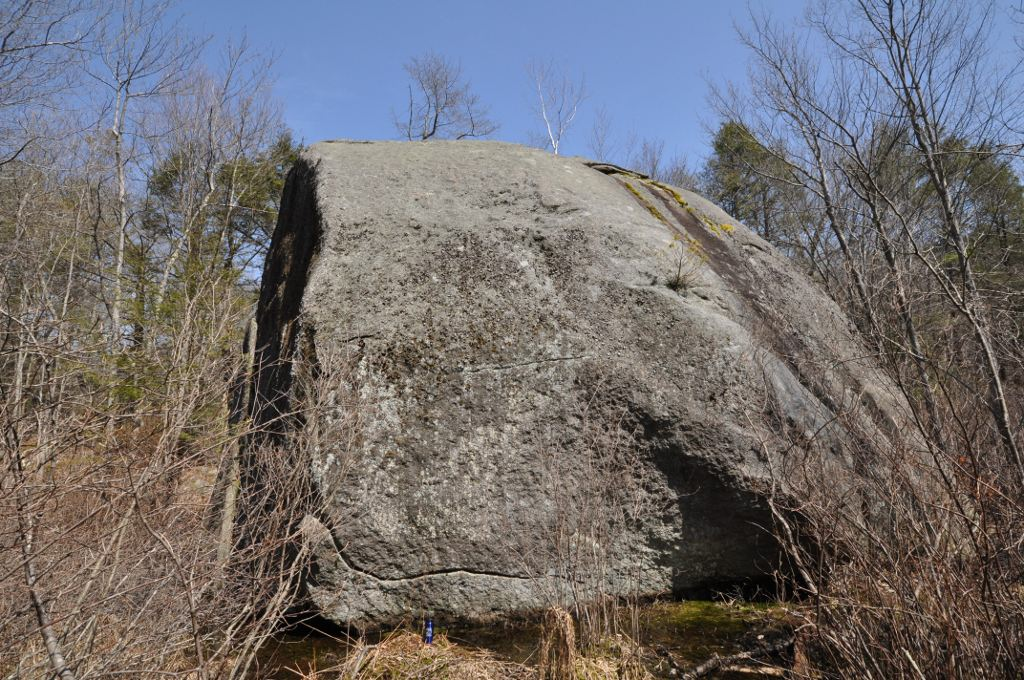 Big Agassiz Rock, a noted glacial erratic in Manchester-by-the-sea, Massachusetts.